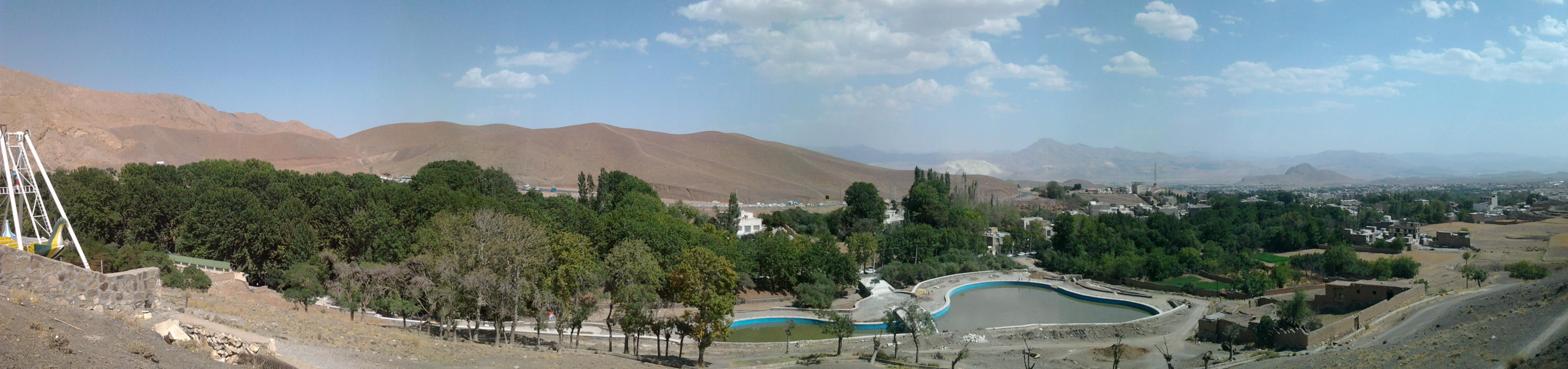 Panorama of Mahallat in summer; Iran